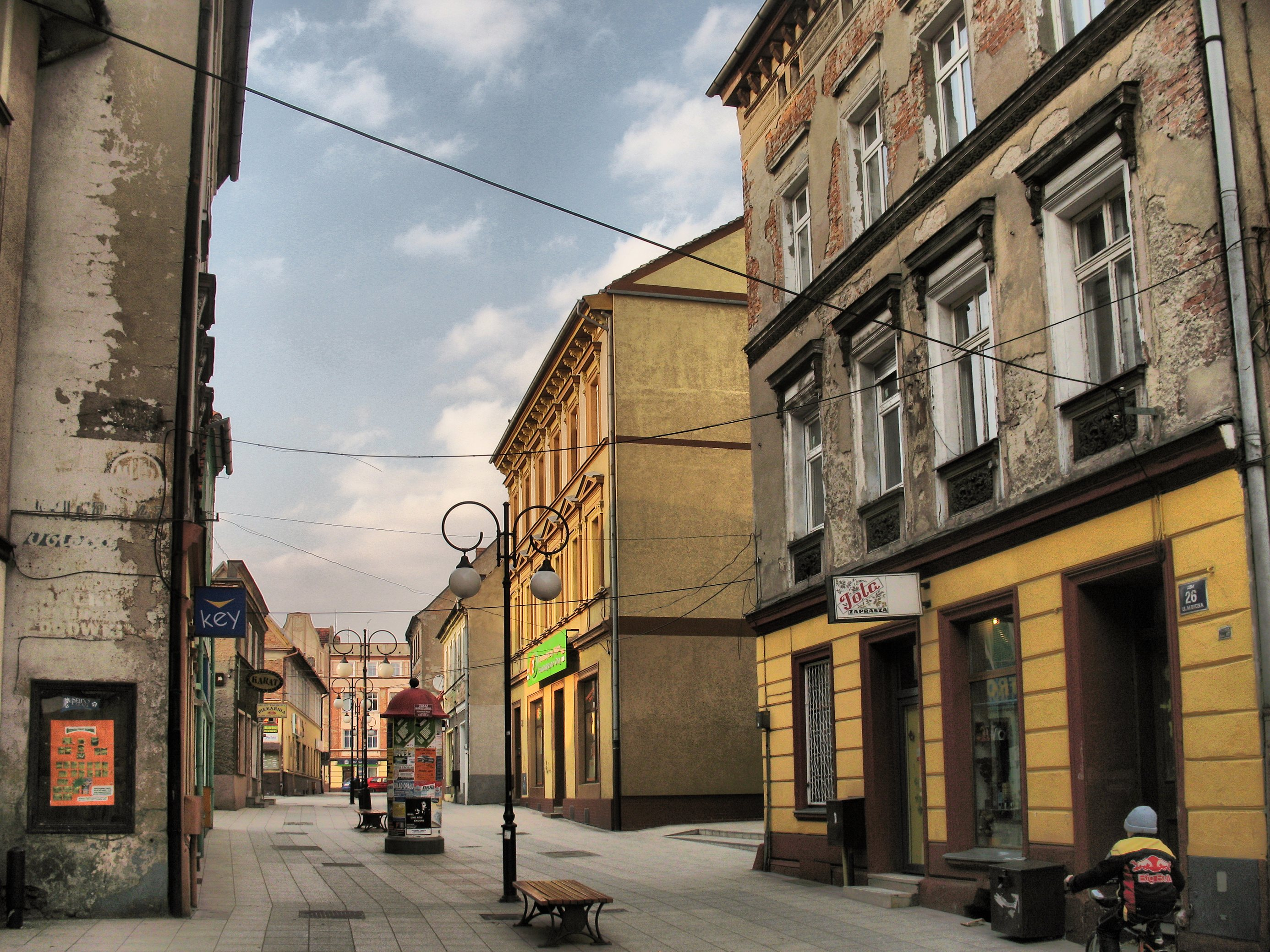 Żary